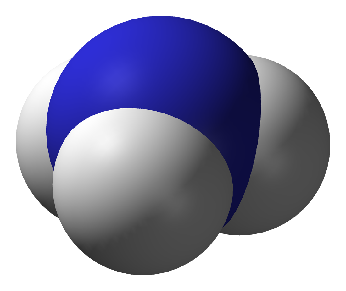 Space-filling model of the ammonia molecule, NH3